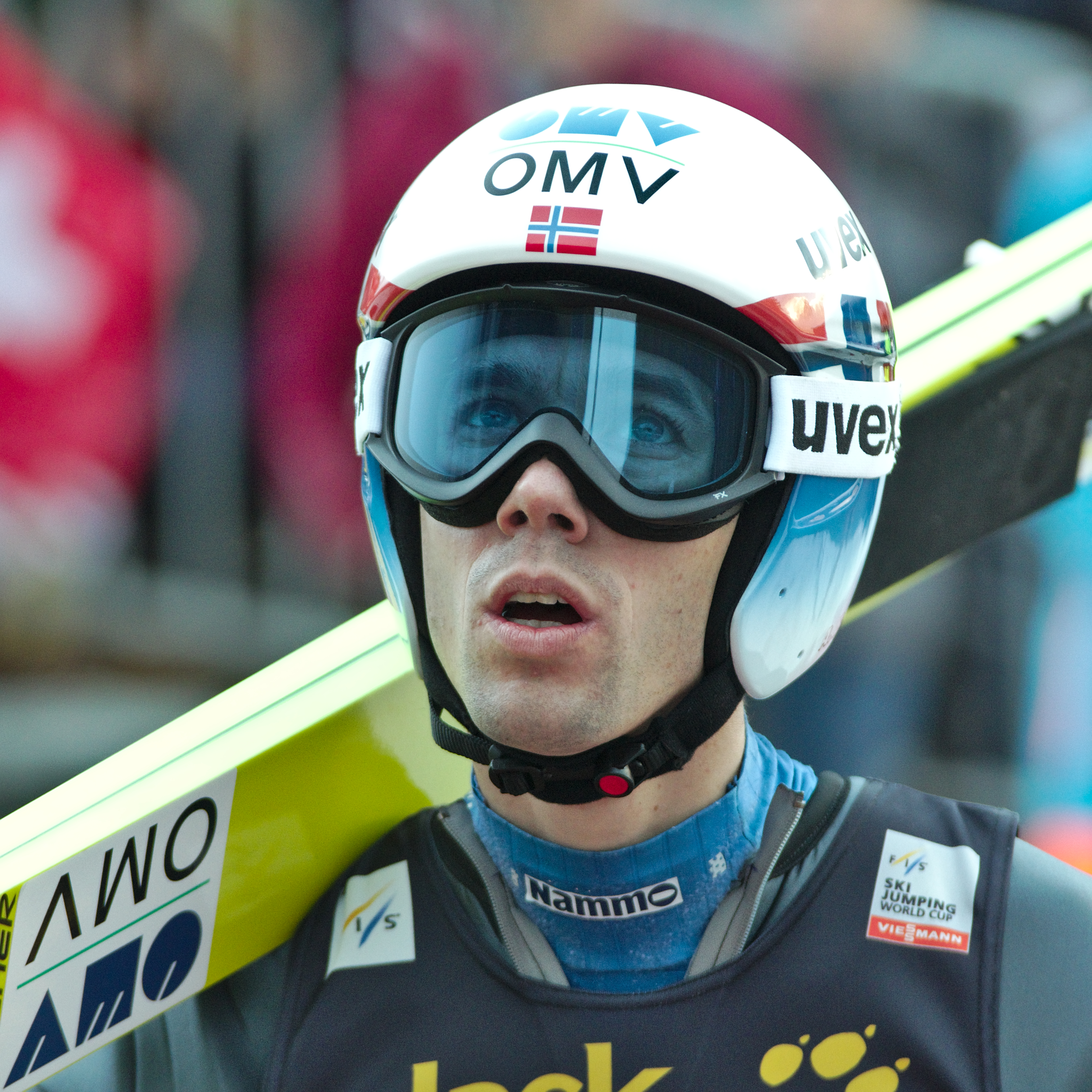 FIS Ski Jumping World Cup 2014 - Engelberg - 20141220 - Anders Bardal